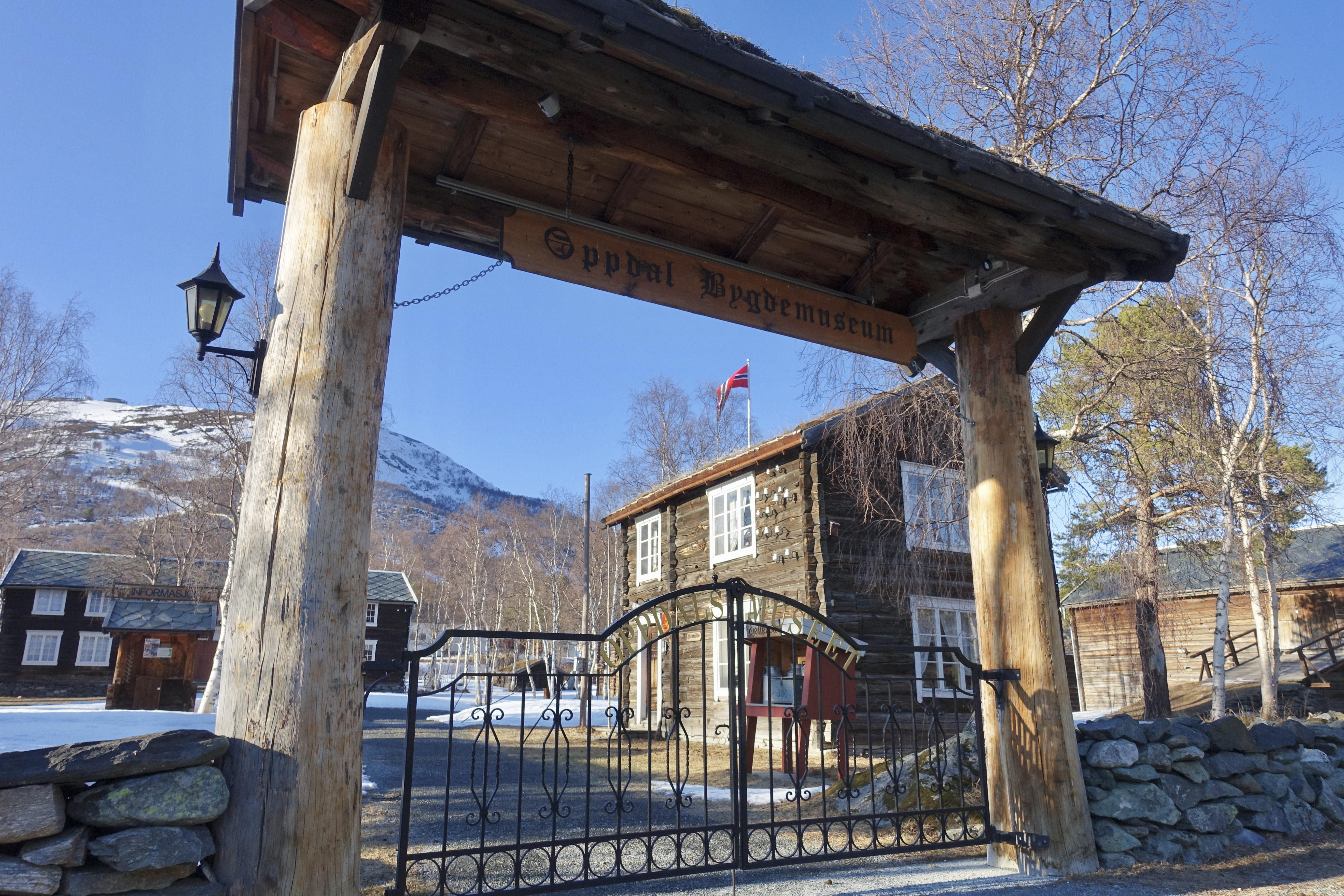 Log portal of the Oppdal Museum (in Norwegian: Oppdalsmuseet), a local museum in Oppdal Municipality in Trøndelag County, Norway. Photo taken on April 10th, 2019.